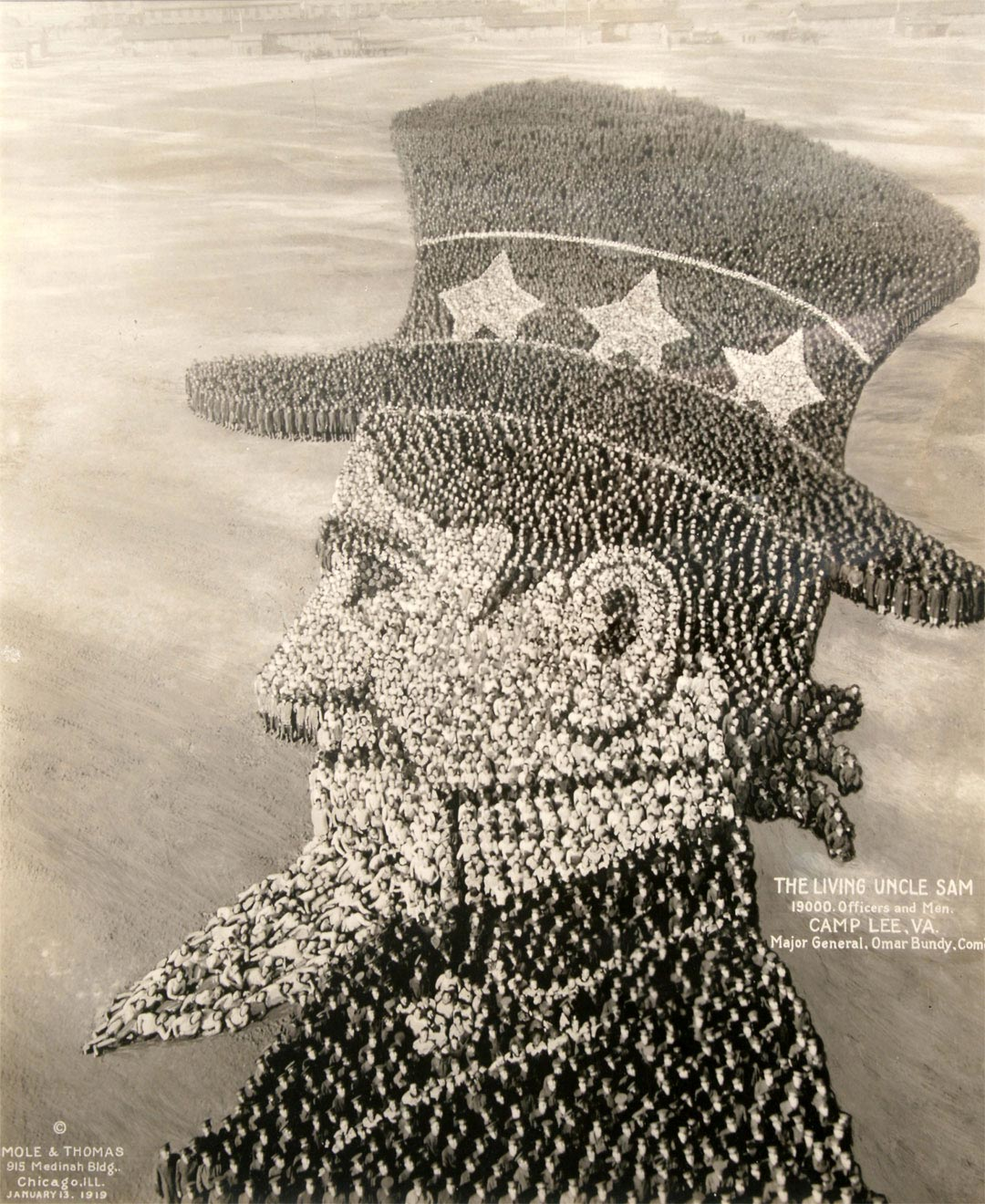 "The Living Uncle Sam" formed by 19,000 military officers and men at Camp Lee, Virginia in 1918, during World War I